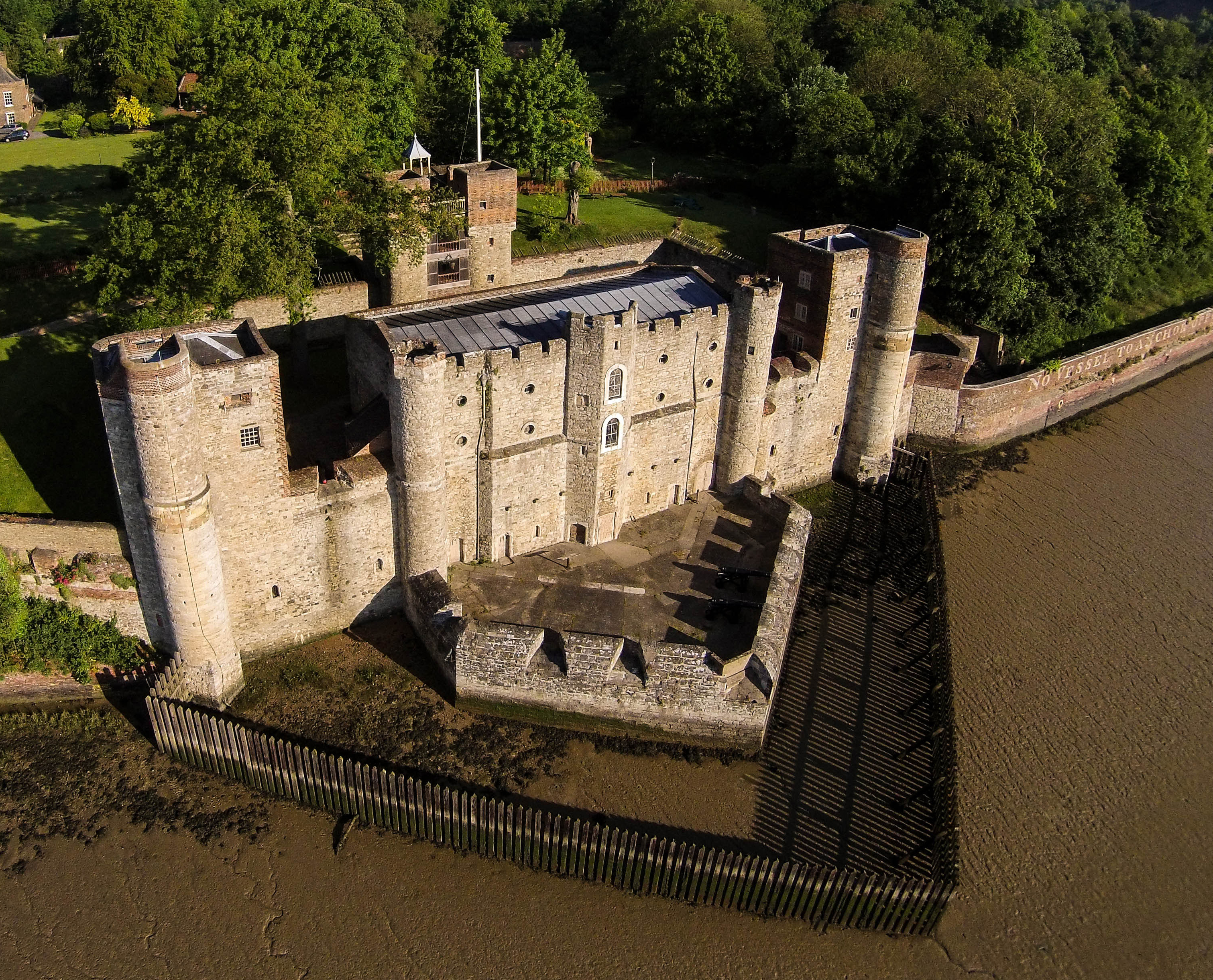 Upnor Castle trimmed